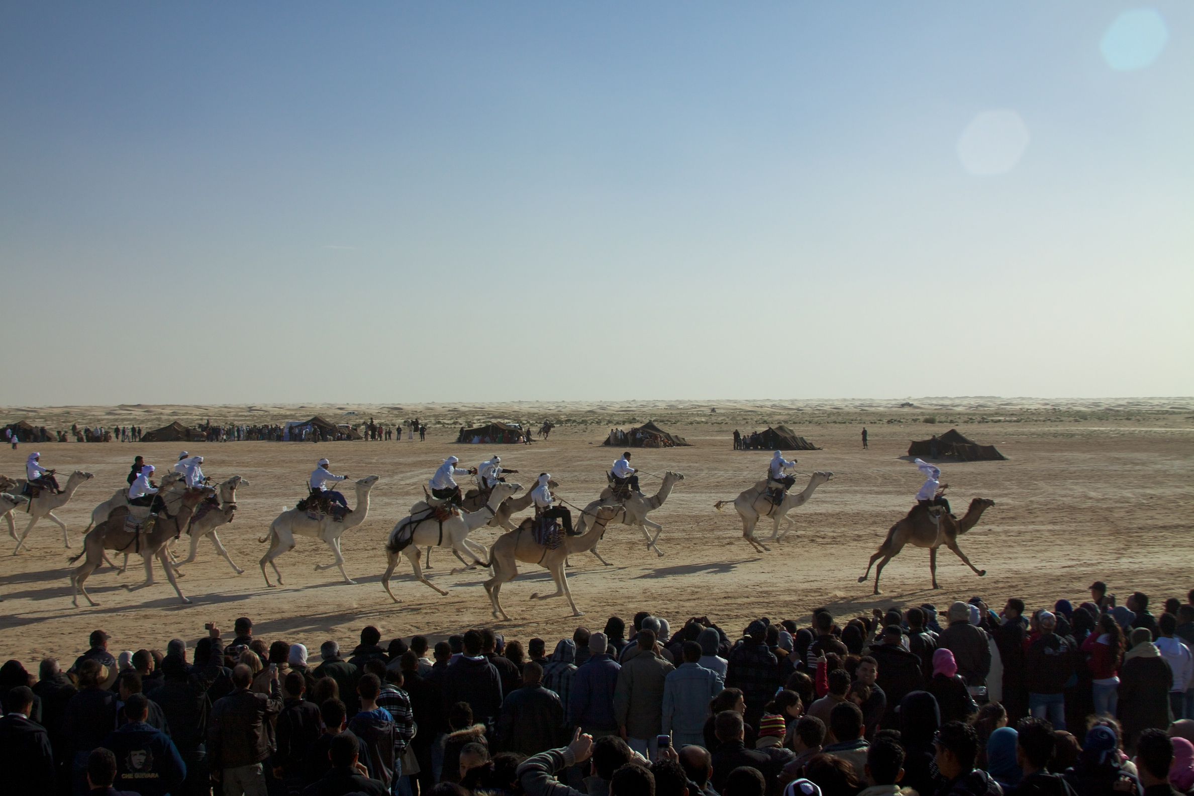 Tunisia 10-12 - 086 - Douz and the Festival of the Sahara